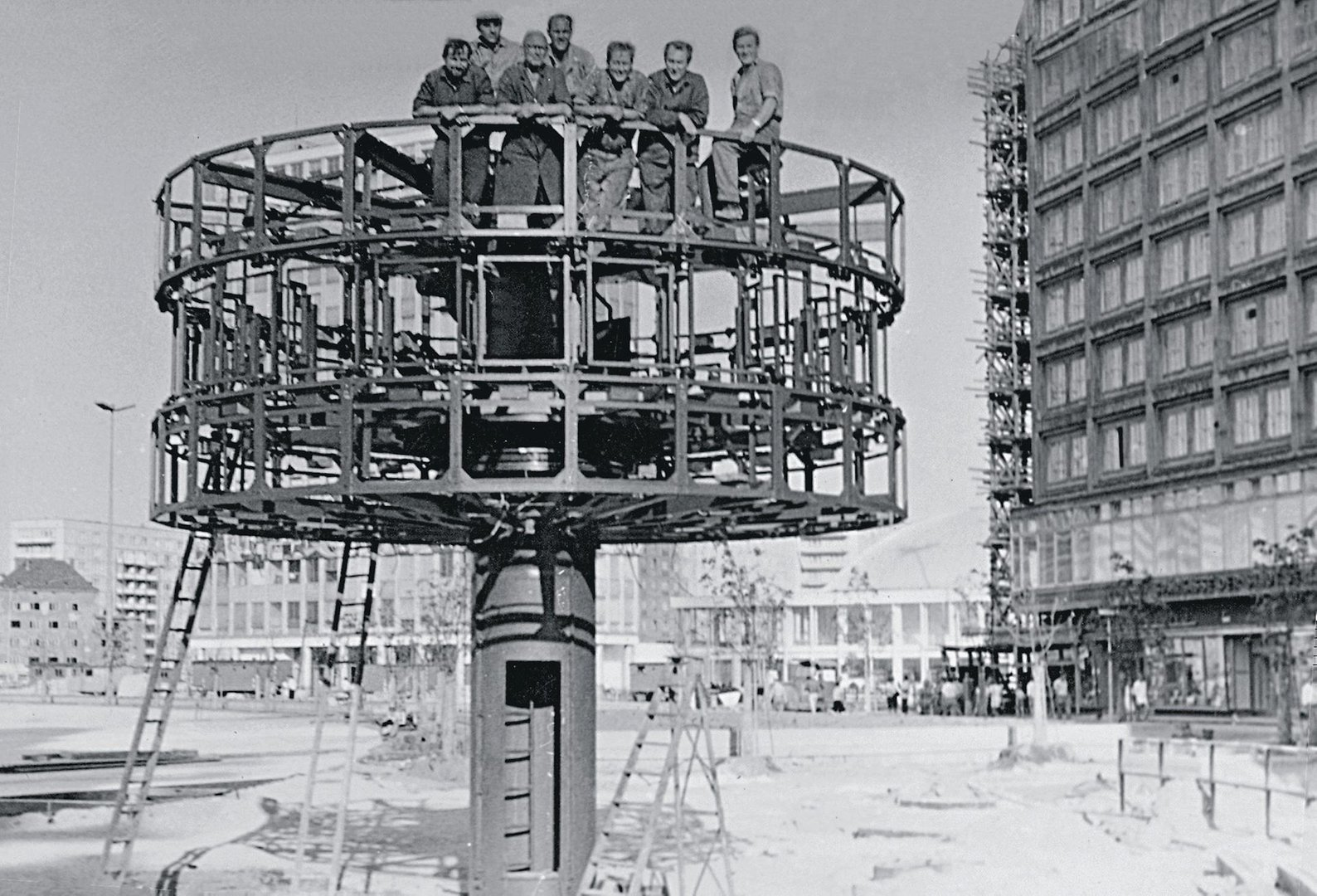 Scaffolding of the World Clock in Berlin 1969; Form designer Erich John far left